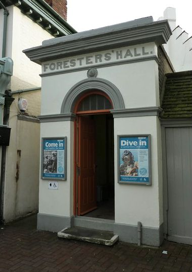 Entrance to Whitstable Museum and Art Gallery, Oxford Street. The building was bought by the Whitstable branch of the Ancient Order of Foresters in 1881, hence the inscription "Foresters' Hall" over the doorway. It was opened as a museum in 1985.